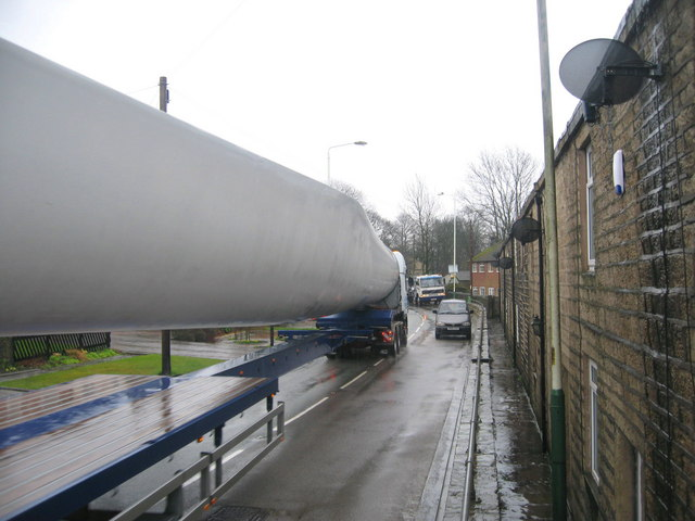 A 40 metre turbine blade dwarfs the cottages as it passes through Edenfield on Rochdale Road. The blade was one of three destined for the near by Scout Moor Wind Farm.